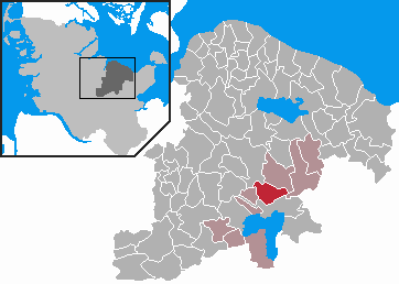 This map shows the area of the Gemeinde (municipality) Rathjensdorf in the Kreis (district) Plön, Schleswig-Holstein, Germany.